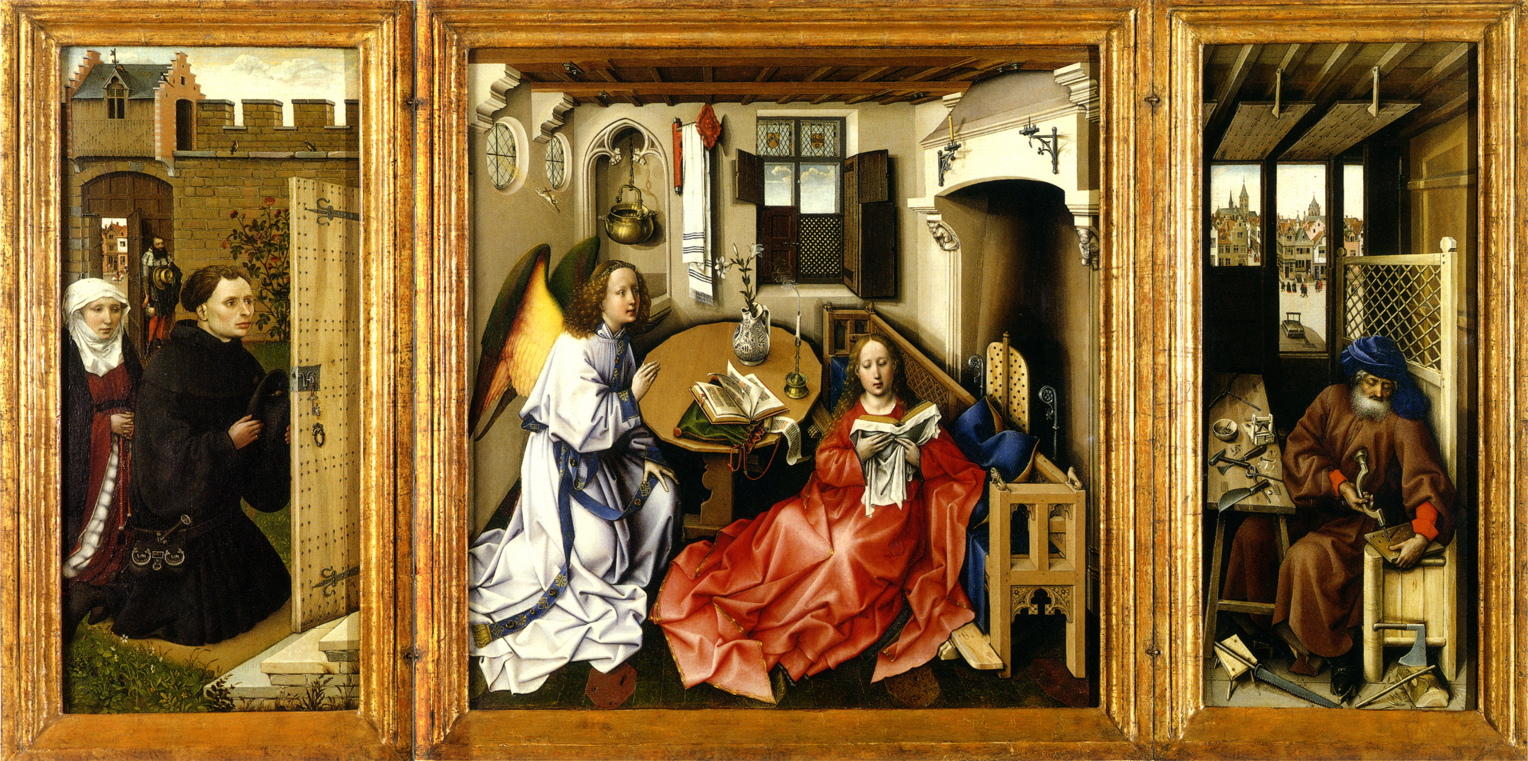 triptych, history of art 1 course 5